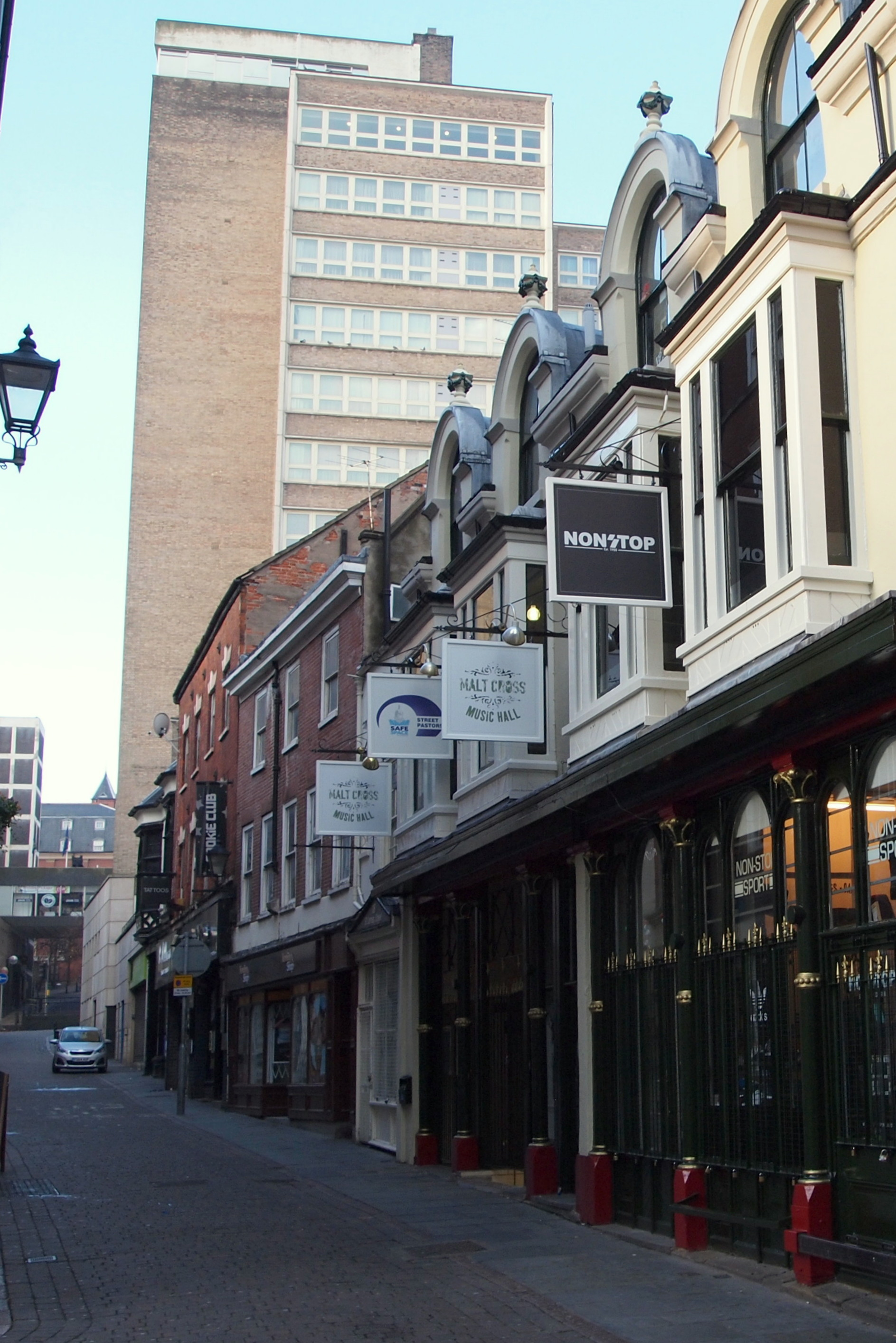 During some recent renovation work, a number of discoveries were made in The Malt Cross including a secret passageway leading into its C13th cave and a hidden room behind a fake fireplace, built into a fake wall. Along with the refurbishment of the existing bar and gallery area, the project - that have been partly funded by a £1.38 million Heritage Lottery Fund Grant - will leave the premises with a state-of-the-art heritage/education/tourism/arts, crafts and music centre. St James' Street, which was known as St James' Lane until the early 1800, was originally called Jam Gate or Jamgate